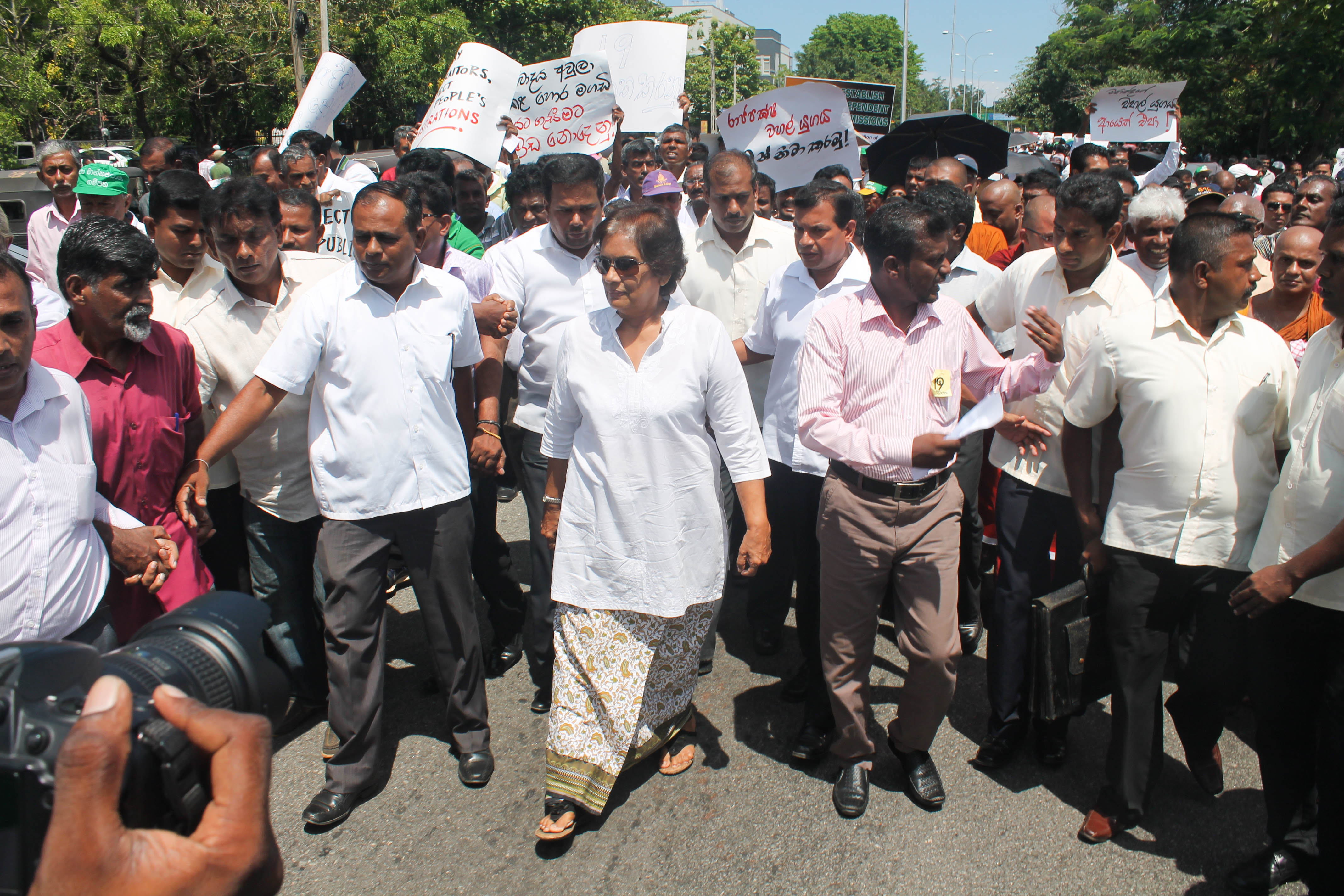 IMG_6636 Protest by Citizen’s Power (Purawasi Balaya) in support of the Nineteenth Amendment to the Constitution of Sri Lanka at Rajagiriya in Colombo, Sri Lanka on 27 April 2015